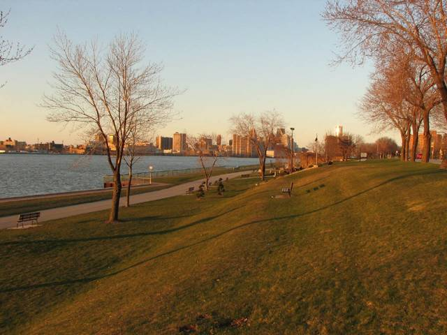 A picture showing Detroit at sunset across the river from Windsor.